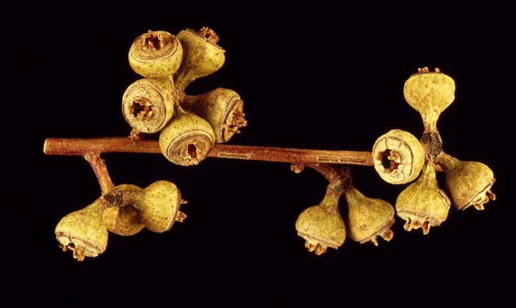 Fruit of Eucalyptus mannensis subsp. vespertina